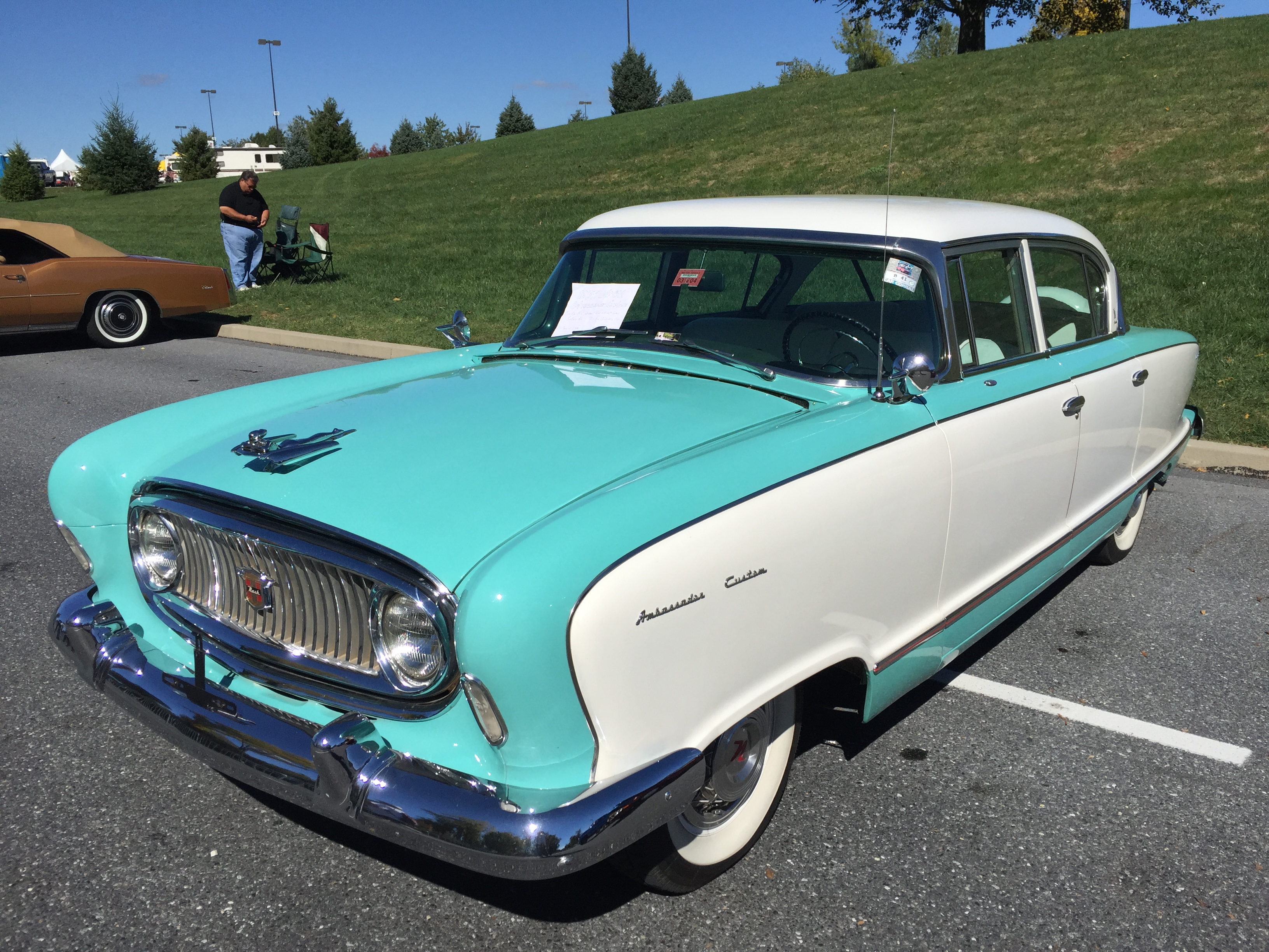 1955 Nash Ambassador Custom, a four-sedan made by the newly organized American Motors Corporation (AMC) that was the merger of Nash-Kelvinator with Hudson Motor Car Company in 1954. This is a full-sized automobile and the Custom models included the continental spare tire mount that increased overall vehicle length by 10 inches. Standard was on the Ambassadors was Nash's venerable overhead-valve 252.6 cu in (4.1 L) straight-six. This car has the optional "Le Mans Dual-Jetfire Six" version with higher compression and dual Carter side-draft carburetors producing 140 horsepower, as well as the popular GM-sourced Hydra-Matic automatic transmission. The LeMans name comes from the racing heritage of the Nash-Healey sports cars that were campaigned in the 24 Hours of Le Mans events. This car also has AMC's front-mounted fully-integrated heating, ventilating, and air-conditioning system. The interior features the original upholstery with individually adjustable and relining front seats. Picture taken at the Antique Automobile Club of America (AACA) 2015 Hershey meet that is held every October in Pennsylvania.